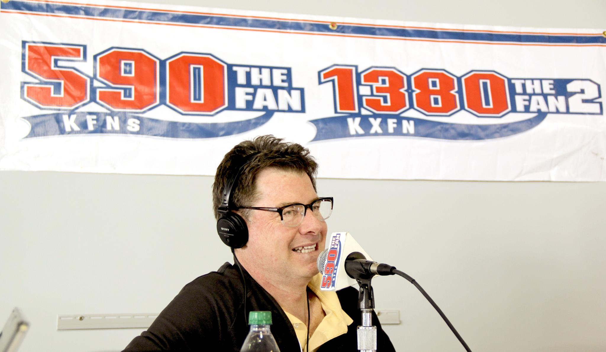 Dr. Rick Lehman doing his radio show.